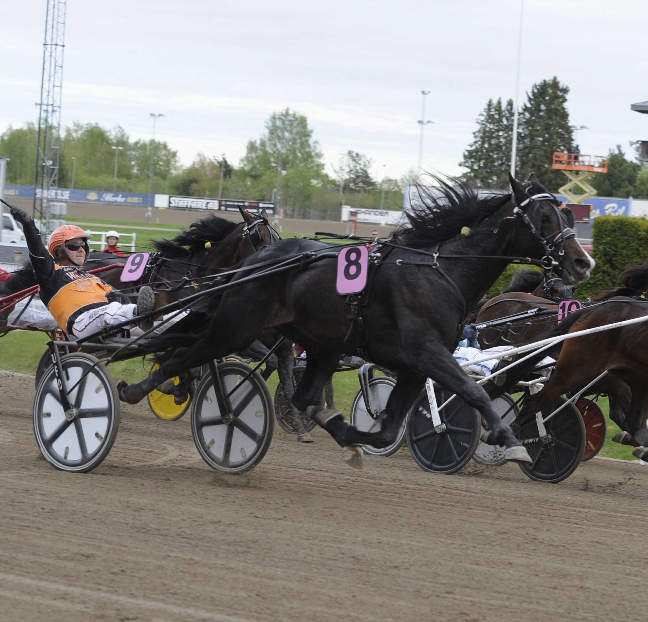 Photo by Christer Norin/ALN Gävletravet, 20170520. Workout Wonder and driver Tommi Kylliäinen.